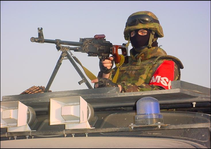 The 265th Military Police Battalion operating in Iraq.